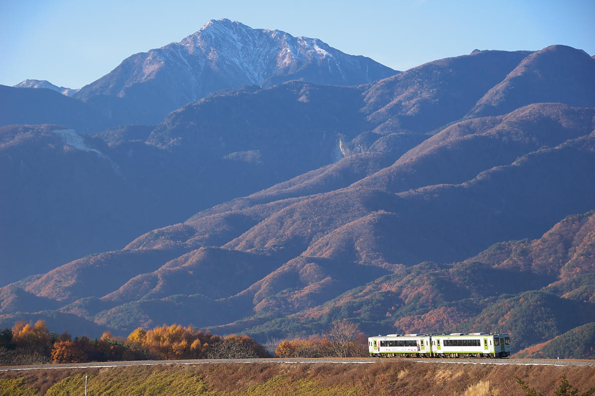 JR East KiHa 110 DMU on the Koumi Line between Kobuchizawa and Kai-koizumi．Kaikomagatke in the background.